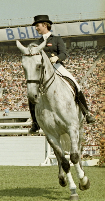 “Austrian athlete Elisabeth Max-Theurer”. Elisabeth Theurer (Austria), Olympic champion in horse ride for the Grand prize, performing on Mon Cherie. XXII Summer Olympics (July 19 - August 3, 1980). Central Lenin Stadium.